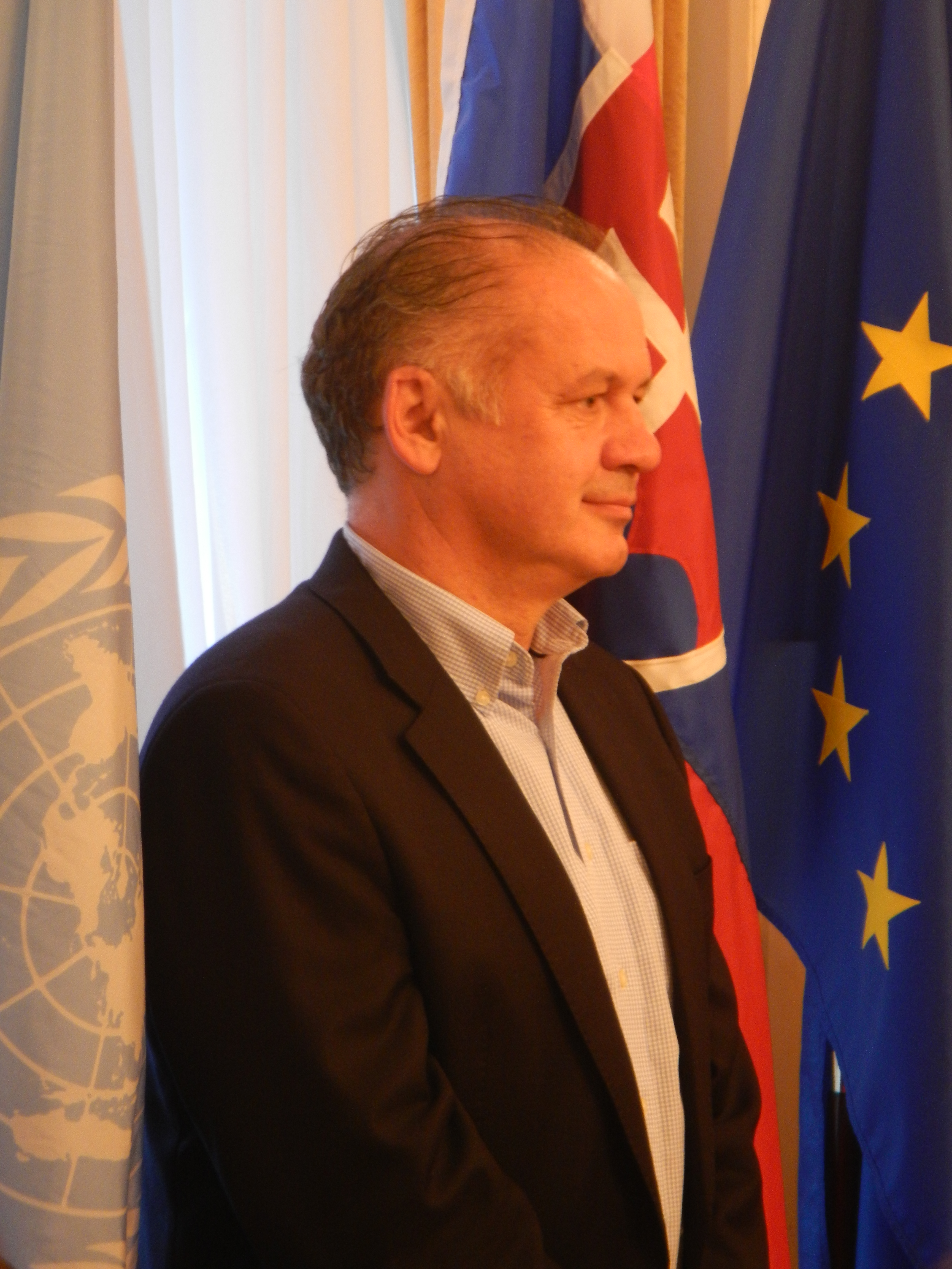 President of Slovakia Andrej Kiska in New York